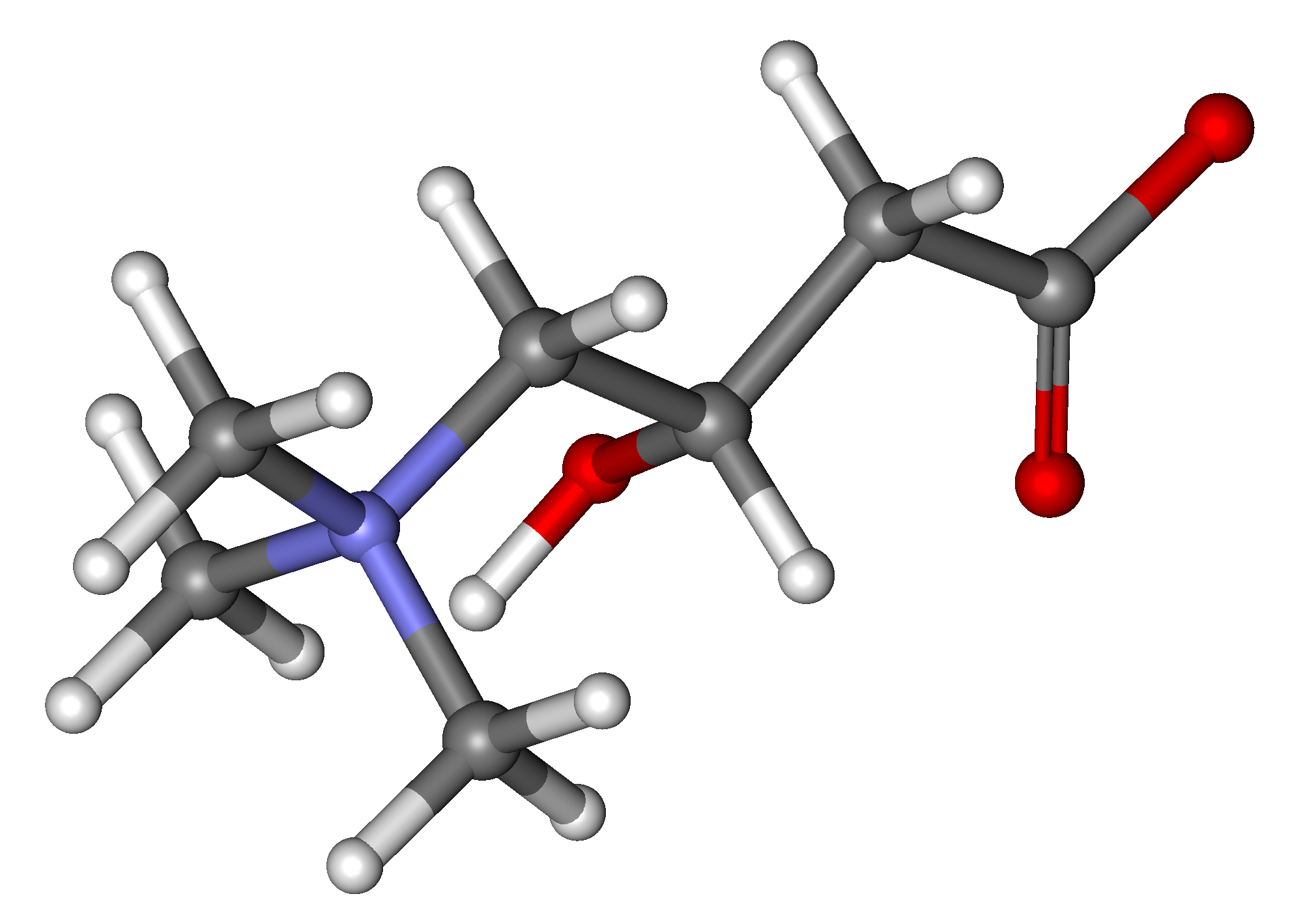 Ball-and-stick model of carnitine molecule. The structure is taken from ChemSpider. ID 282